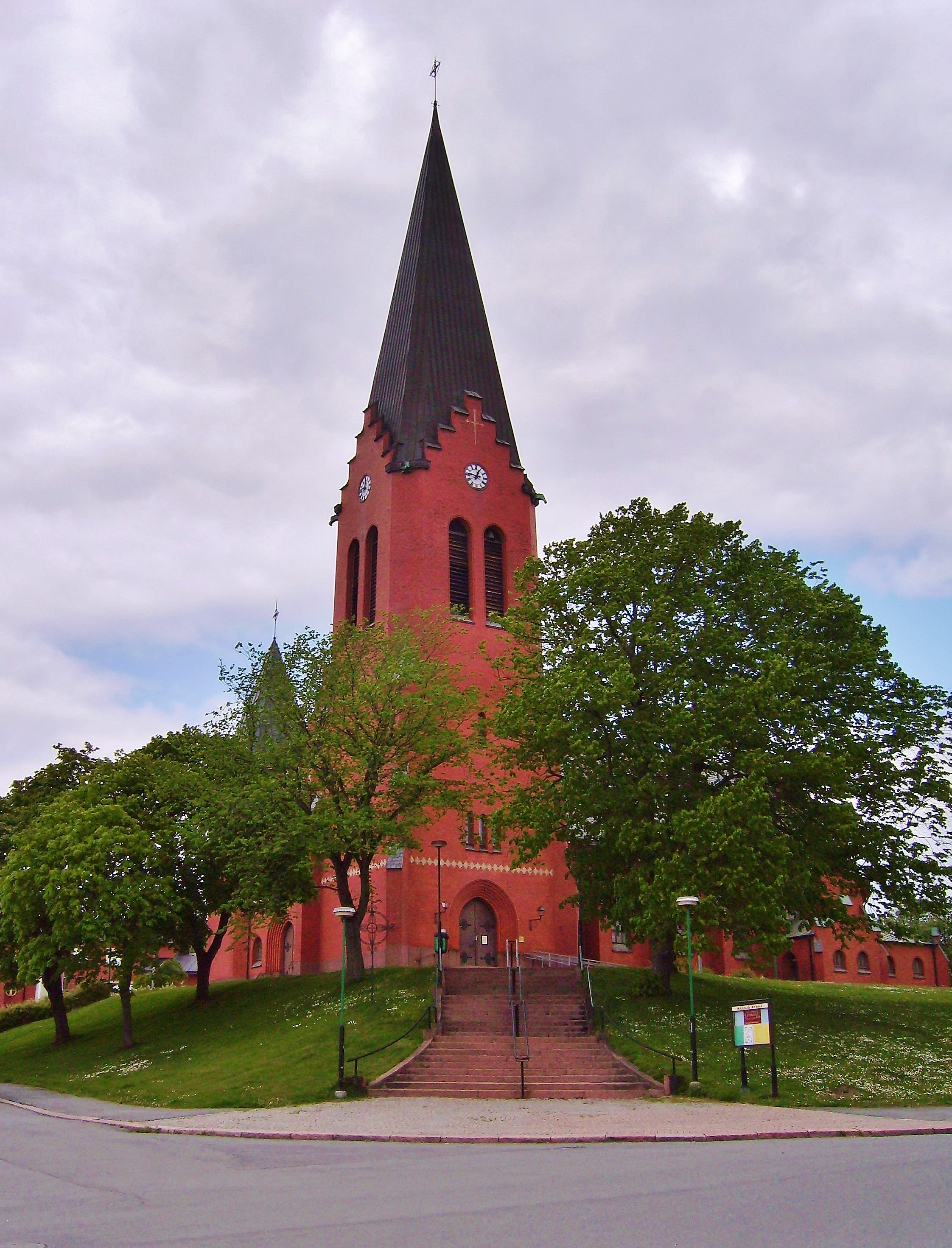 The church of Nässjö.